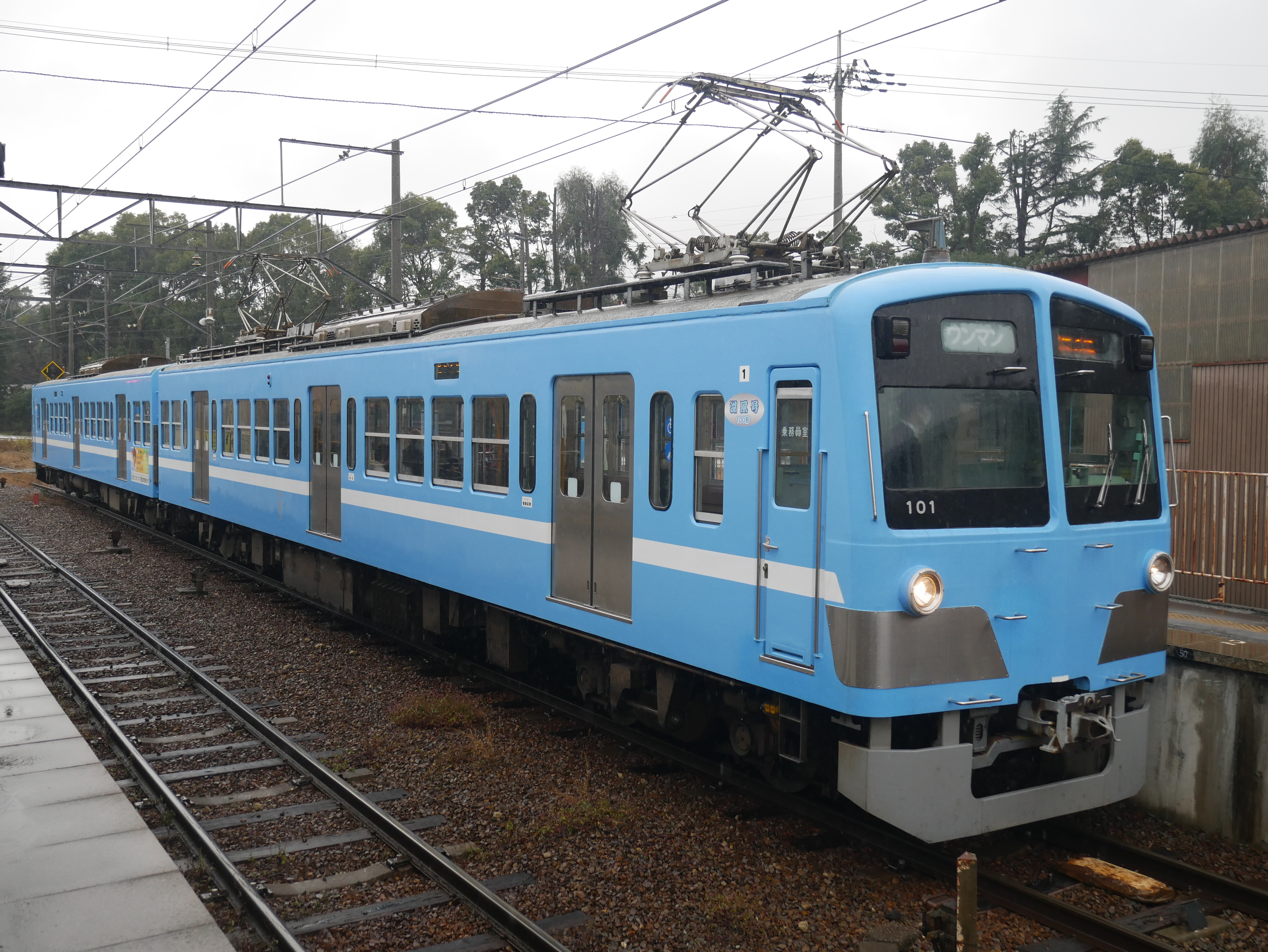 Ohmi railway Moha (Driving Motor Car) 101 and 1101 at Musa station